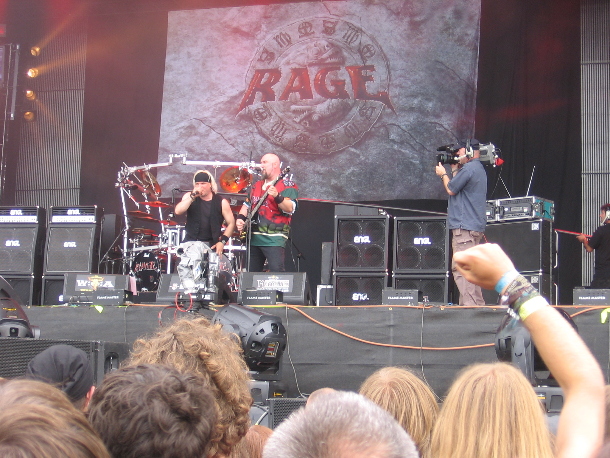 Rage's singer with singer from Subway to Sally